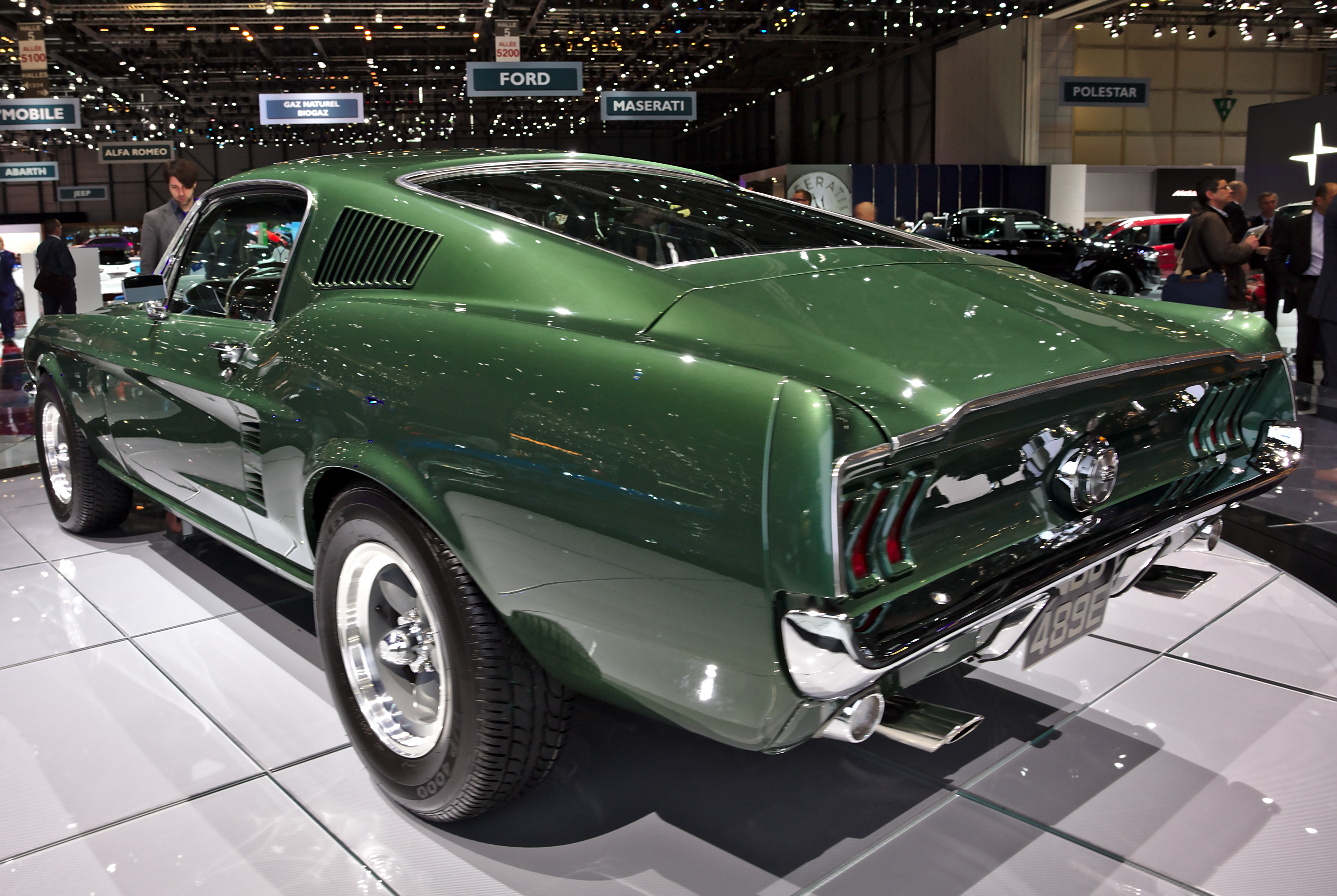 Ford Mustang Bullit '68 at Geneva Motorshow 2018